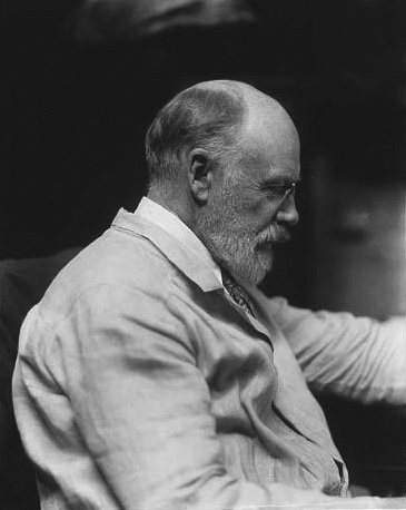 Photograph of Herbert Adams